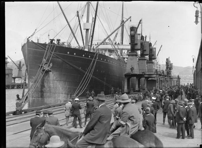 Massey's Special Constables guard men loading or unloading cargo from the Athenic (1901) at Queens Wharf, Wellington, during the Waterfront Strike